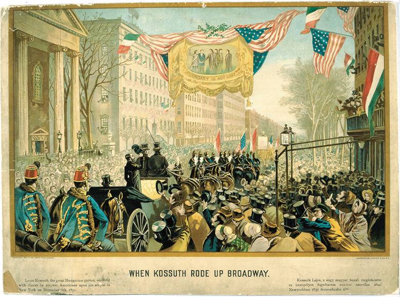 When Kossuth rode up Broadway in 1851.